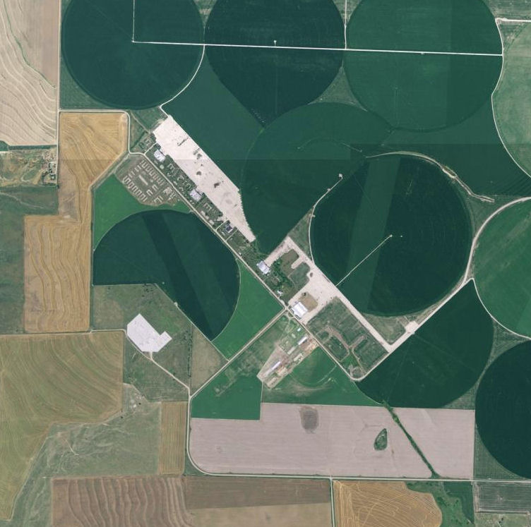 USGS digital orthophoto of McCook Army Airfield in Nebraska